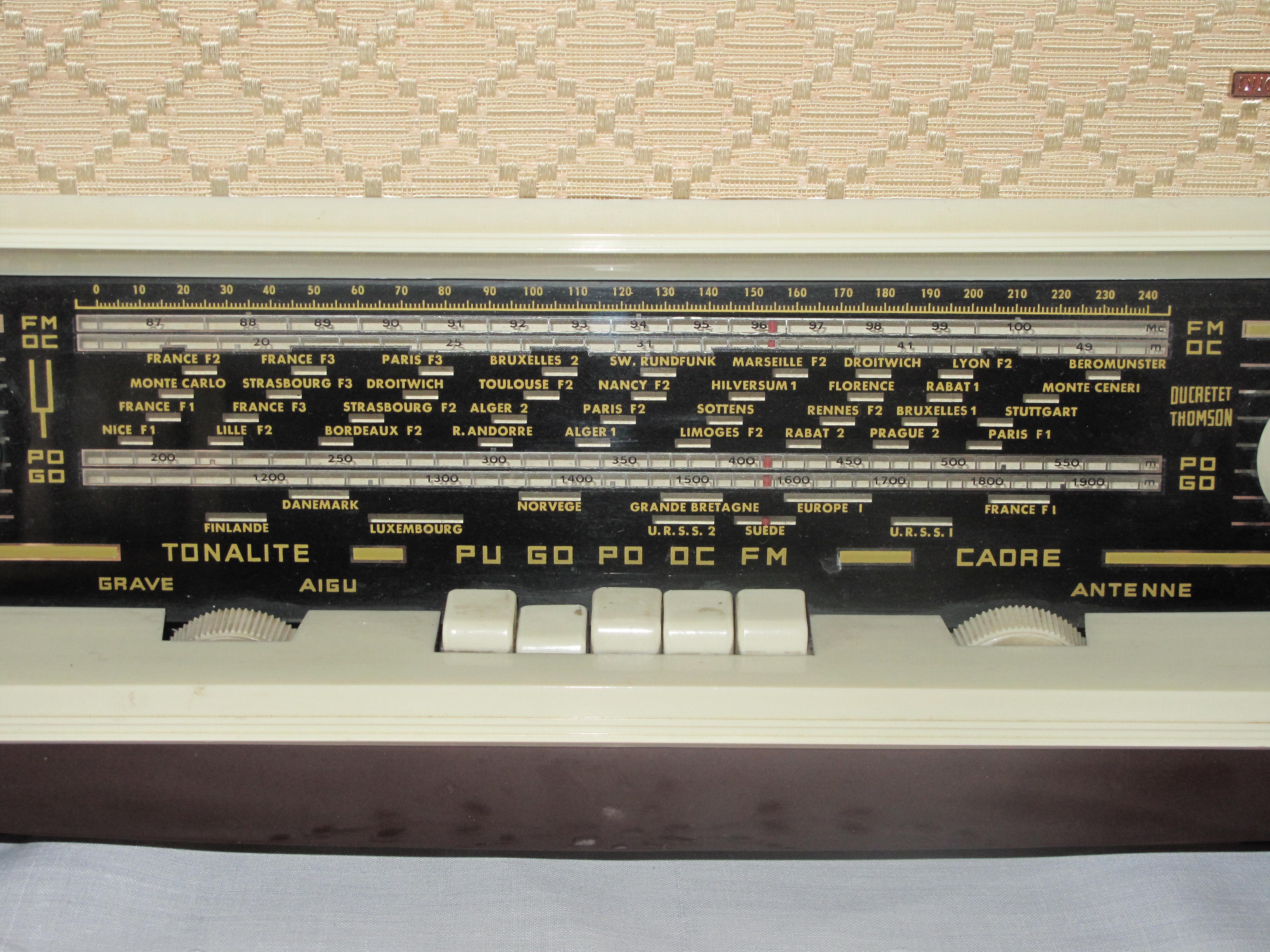 Screen of old French radio Ducretet-Thomson. It shows some of the broadcast stations at that time.